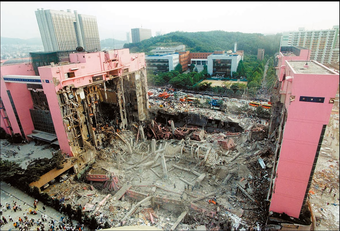 Sampoong Department Store Collapse